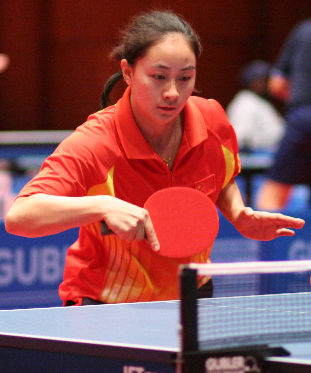 Liu Meili